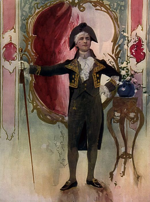 Drawing of Hayden Coffin in A Country Girl, from a book entitled "Players of the Day", published in London by George Newnes, circa 1902.